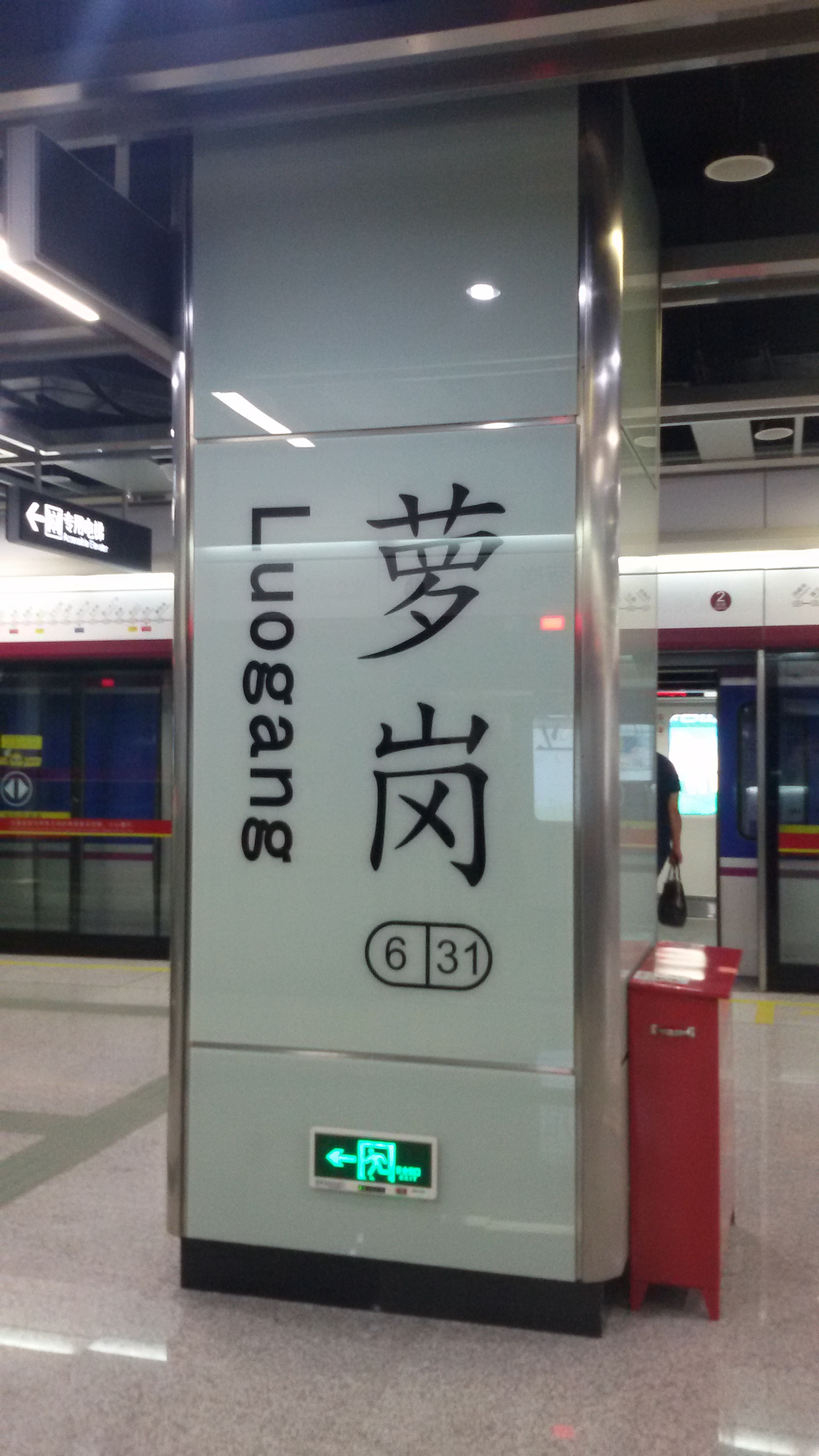 WORD on PILLAR for Luogang Station in Guangzhou Metro